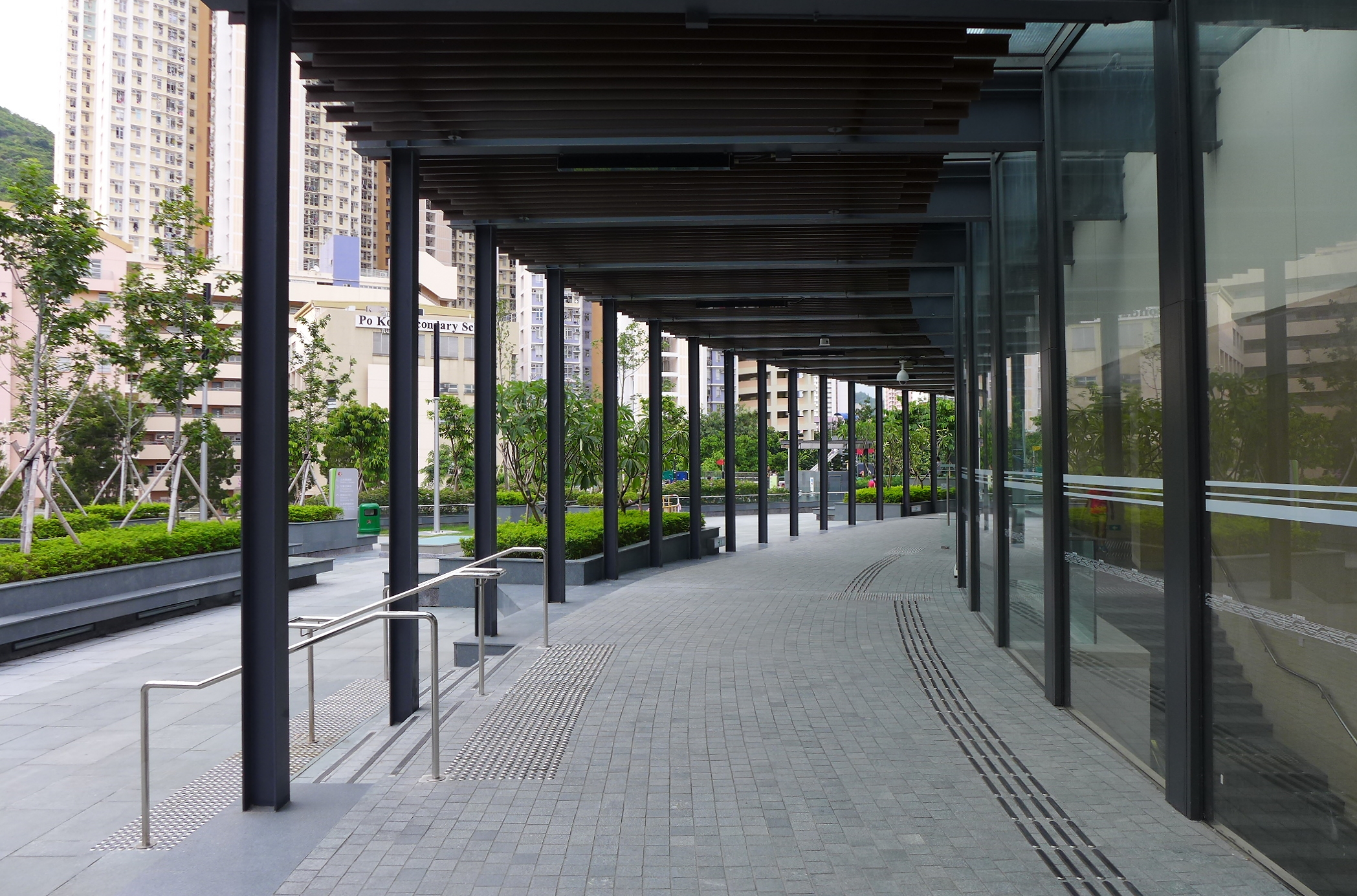 Tiu Keng Leng Sports Centre